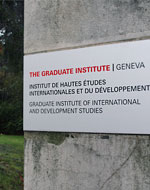 The Graduate Institute of International and Development Studies (Geneva).